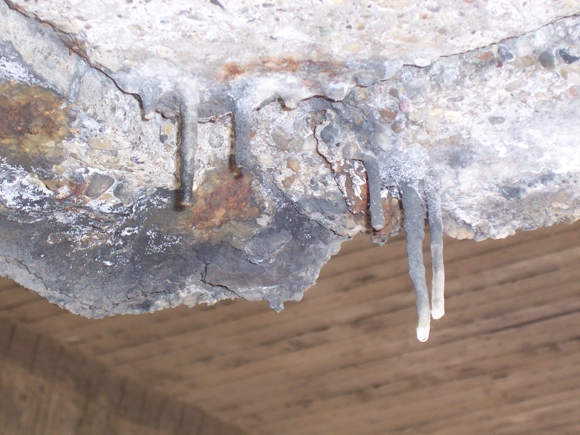 Concrete stalactites photographed at the Mostar interchange.